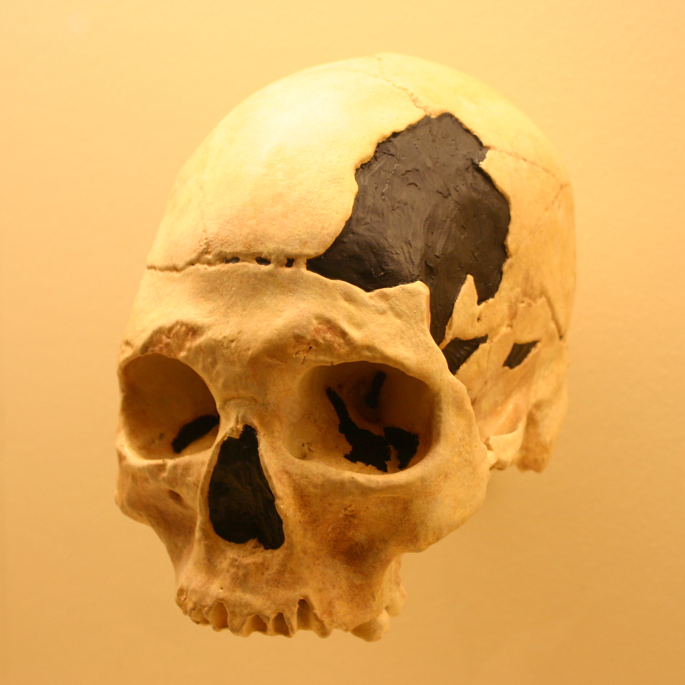 Oase 2 Age: About 41,500–39,500 years old Site: Peştera cu Oase, Romania Year of Discovery: 2003 Discovered by: Ştefan Milota, Ricardo Rodrigo, Oana Moldovan and João Zilhão Age: About 41,500–39,500 years old Species: Homo sapiens This skull looks modern but retains a few archaic traits, such as wide cheek bones. Some scientists wonder if this means that on rare occasions Homo sapiens interbred with Neanderthals, who lived in Europe at the same time. Reference: Oase 2. Human Origins. Washington, DC: Smithsonian National Museum of Natural History. 30 March 2016.